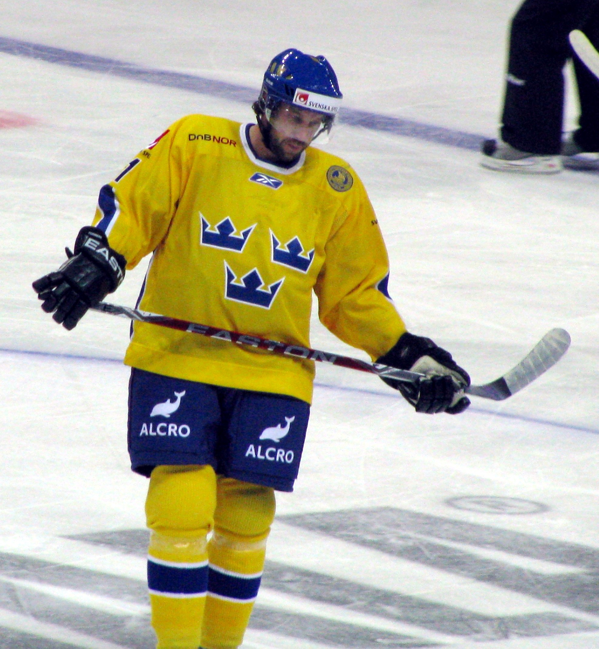 Peter Forsberg (Sweden) in match against Finland (7-0 for Finland). Karjala Tournament 2009.